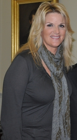 Trisha Yearwood at the Tennessee State Capitol